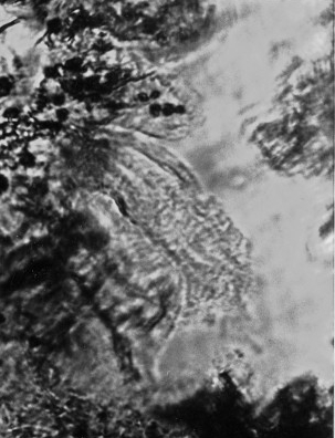 Photo and drawing of Teranymphites rhabdotis n. gen. n. sp. Left portion of body covered by a second specimen. N = nucleus, A = putative axostyle, P = parabasal. Bar = 24 μm.